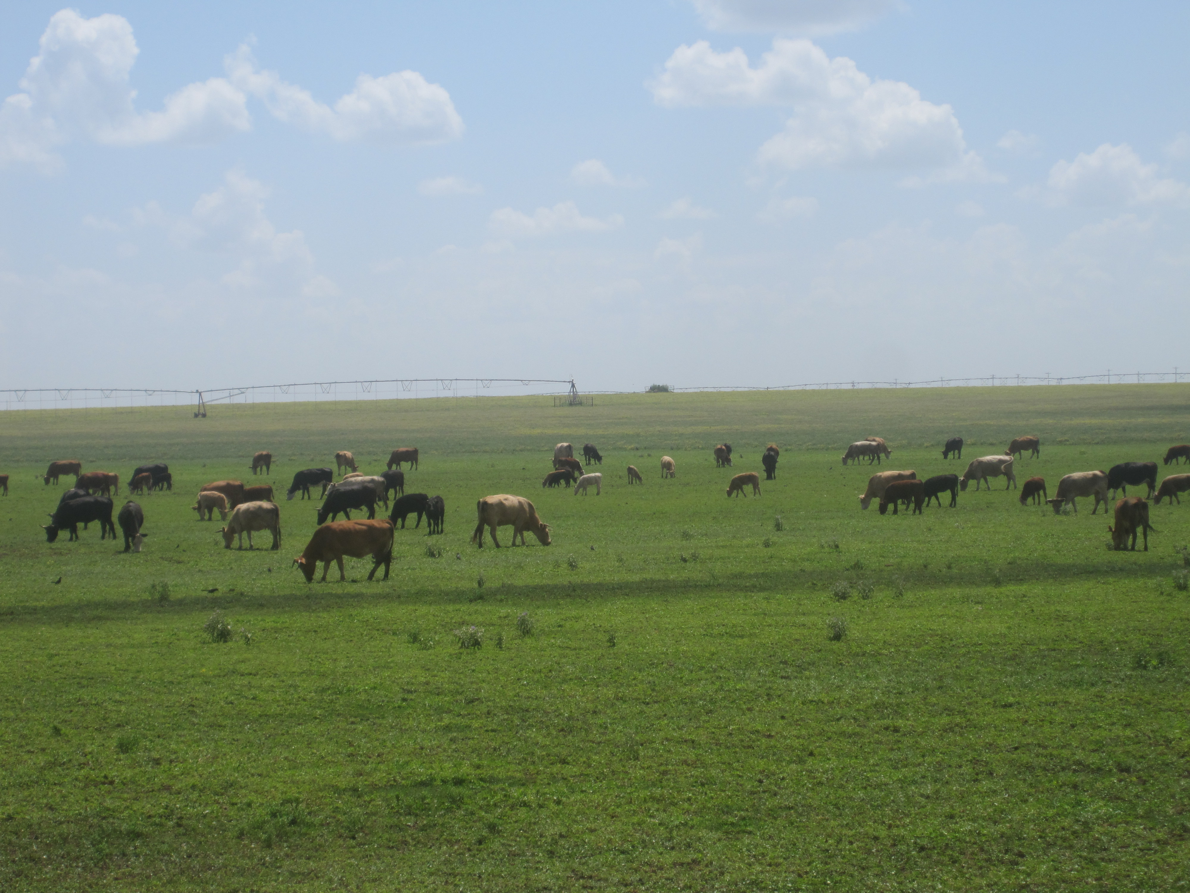 I took photo with Canon camera north of Springlake, TX.